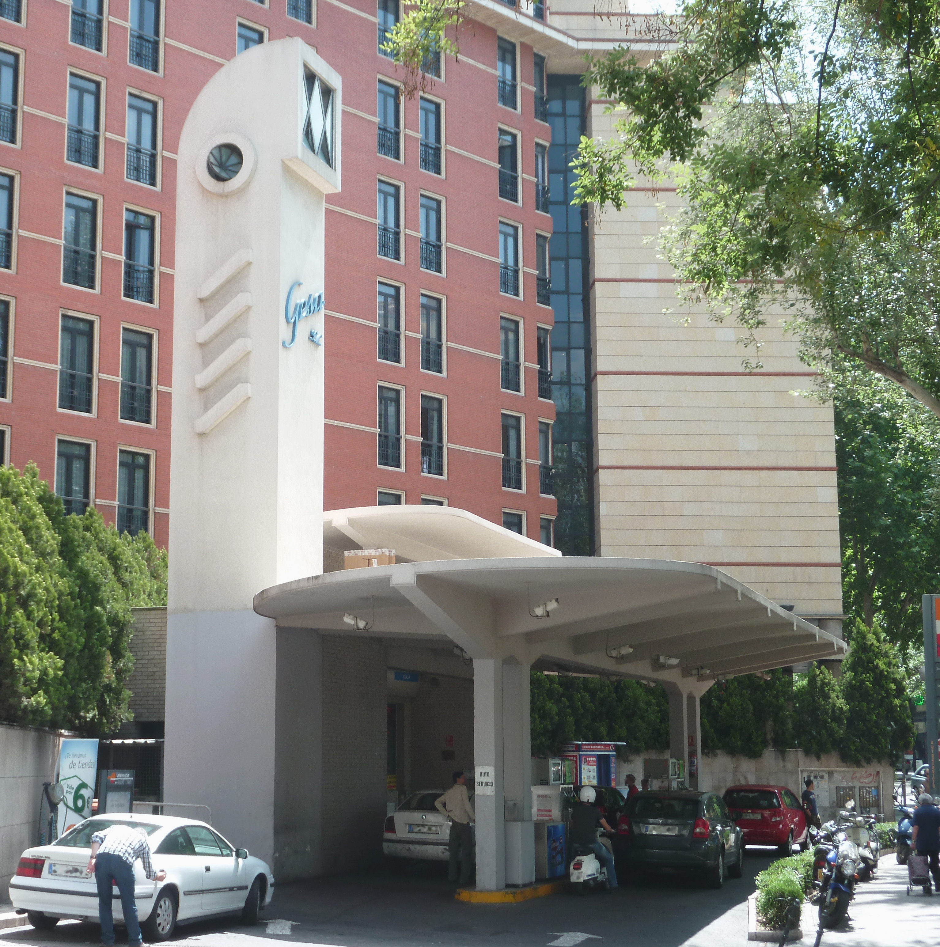 View of Gesa Petrol Station in Madrid (Spain), at 18 Calle de Alberto Aguilera (street) in Chamberí district. It was designed by Casto Fernández-Shaw and built in 1927.